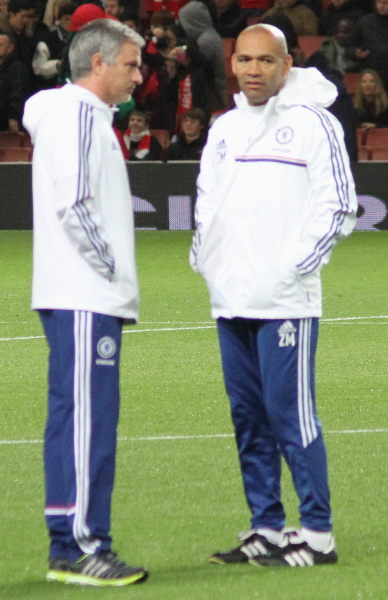 Jose Mourinho and Jose Morais